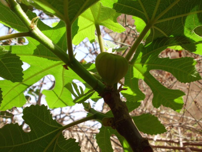 This photo taken at Cairo